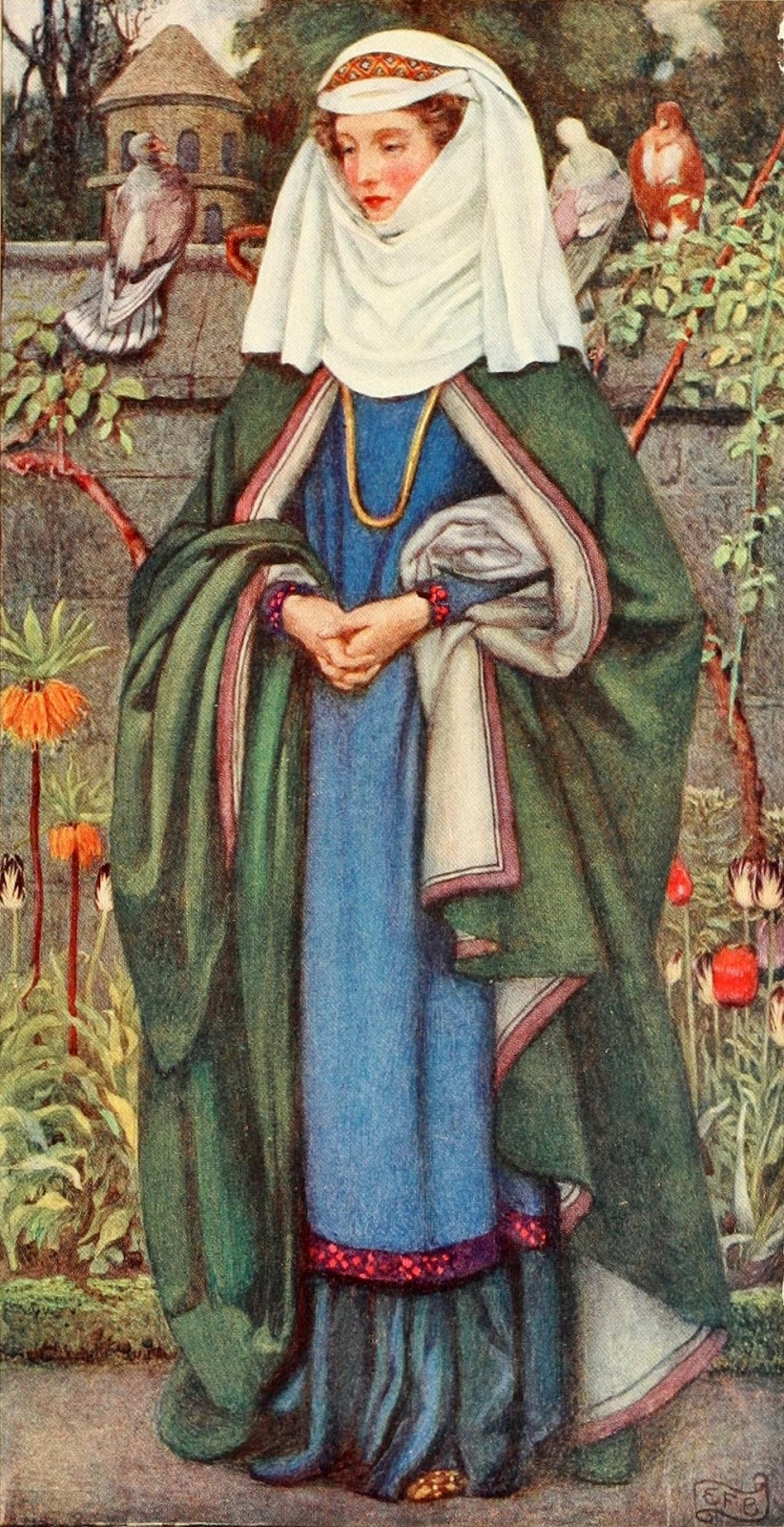 Idylls of the King (1913) with illustrations by Eleanor Fortescue-Brickdale